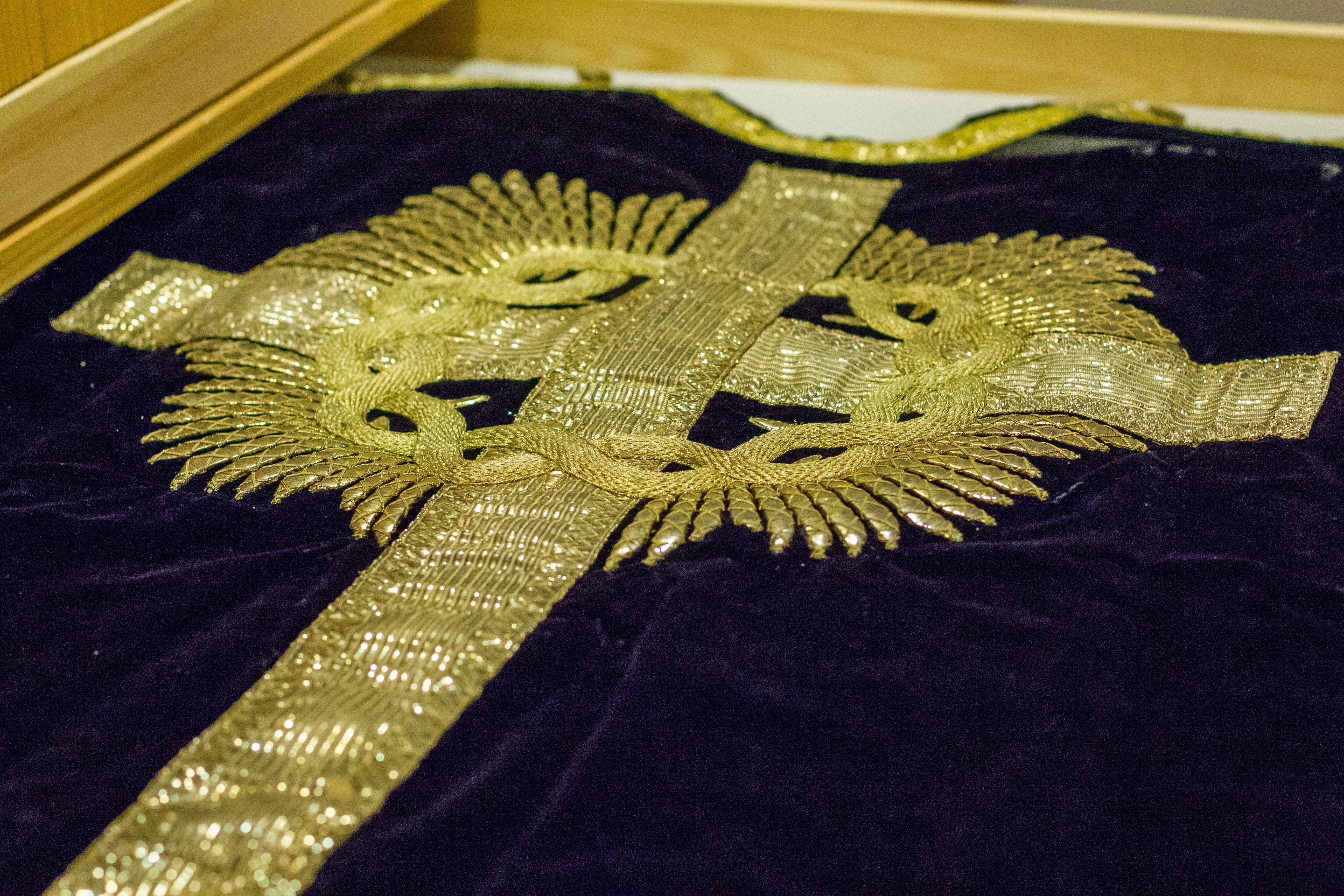 Chasuble in Hedemora church, Dalarna County, Sweden.